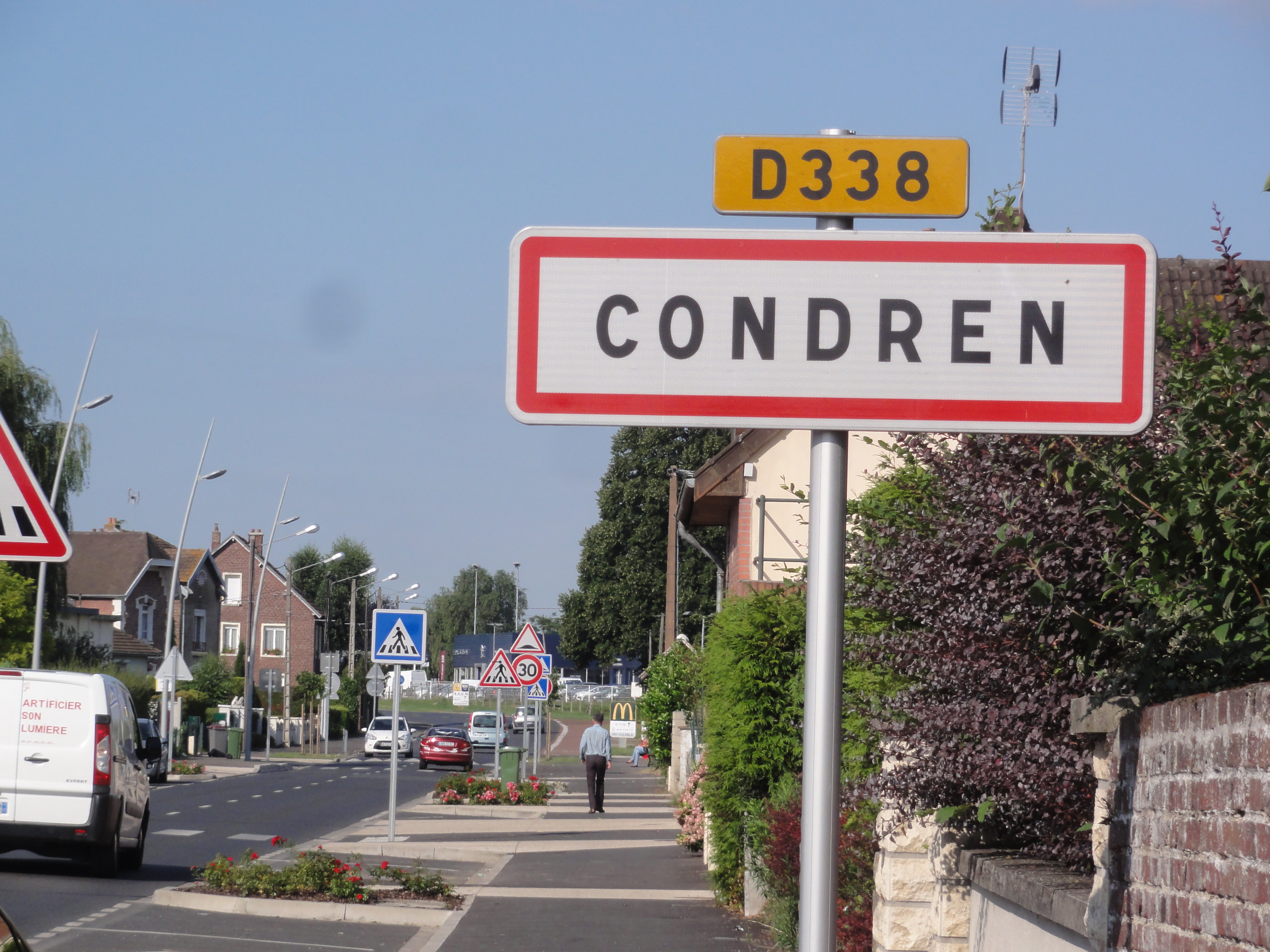 Condren (Aisne) city limit sign D338